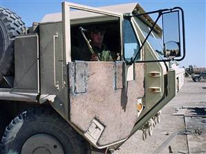 A reinforced door on an Army truck at a base at Ar-Ramadi, Iraq.